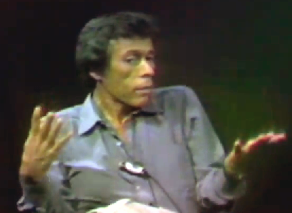 This is a photo I personally took when he appeared on a local cable TV show that I produced. I own the copyright.